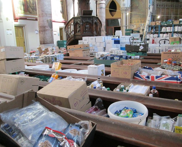 St Mary's Catholic Church - East Parade - Food Bank